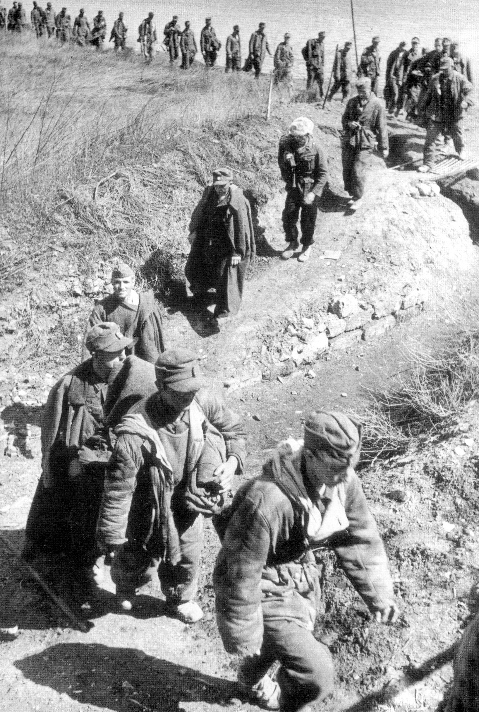 “Captive German soldiers on the road”. Captive German soldiers crossing a field, in a single file, on a road through a field. Ukraine, Odessa province